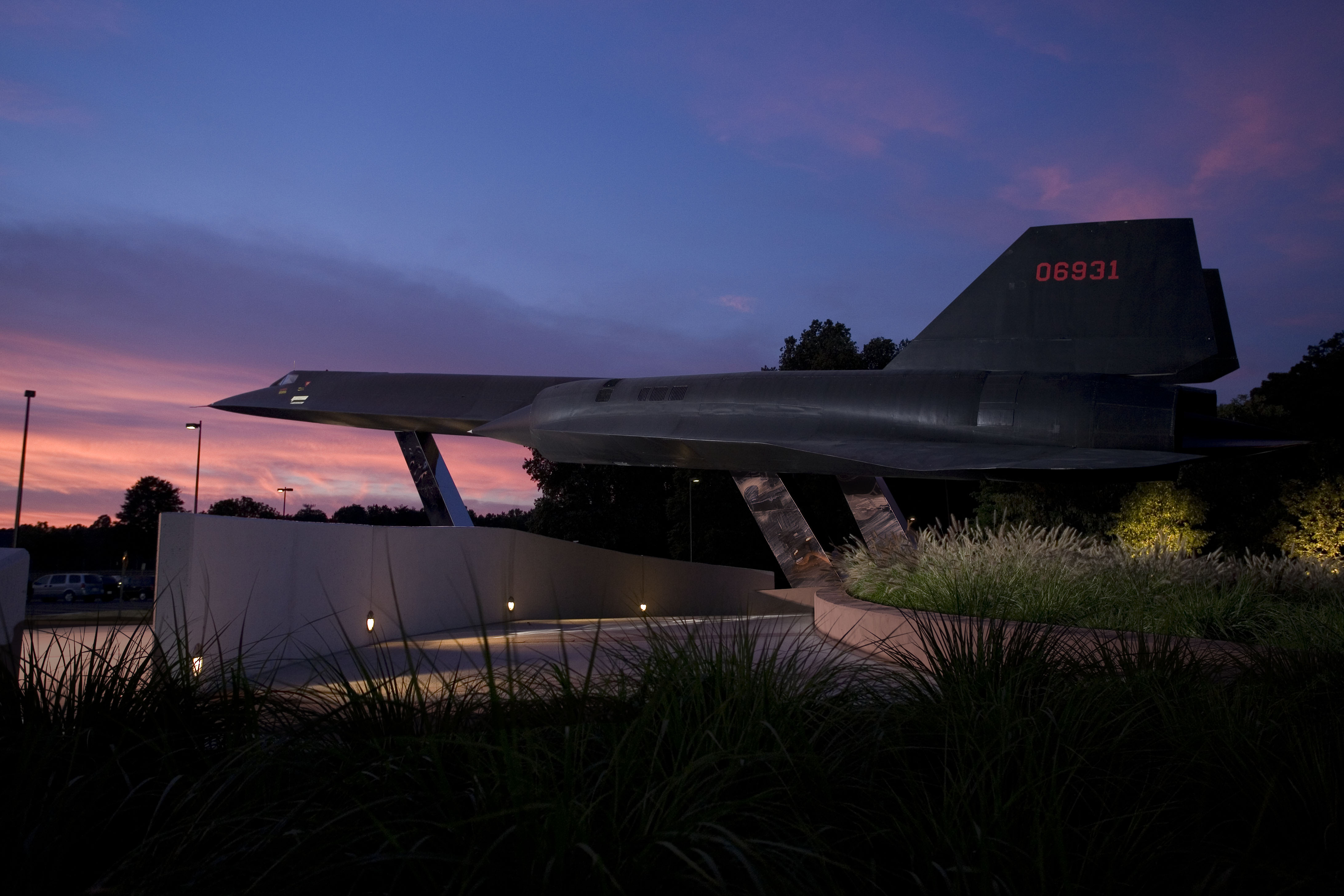 CIA developed the highly secret A-12 OXCART as the U-2’s successor, intended to meet the nation’s need for a very fast, very high-flying reconnaissance aircraft that could avoid Soviet air defenses. CIA awarded the OXCART contract to Lockheed (builder of the U-2) in 1959. In 1965, after hundreds of hours flown at high personal risk by the elite team of CIA and Lockheed pilots, the A 12 was declared fully operational, attaining the design specifications of a sustained speed of Mach 3.2 at 90,000 feet altitude. The A-12 on display at CIA Headquarters—number eight in production of the 15 A-12s built—was the first of the operational fleet to be certified for Mach 3. No piloted operational jet aircraft has ever flown faster or higher.